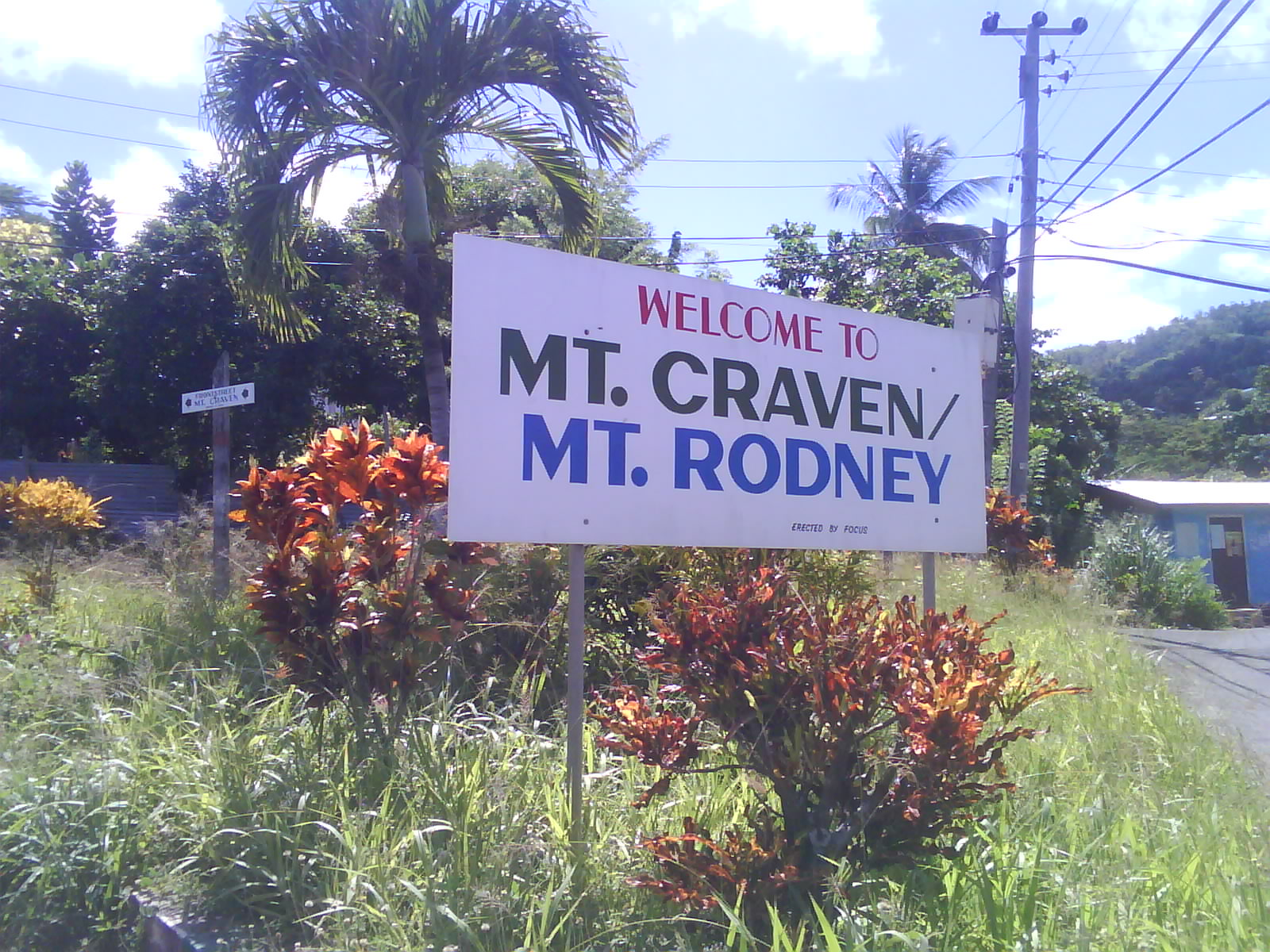 Mt Craven